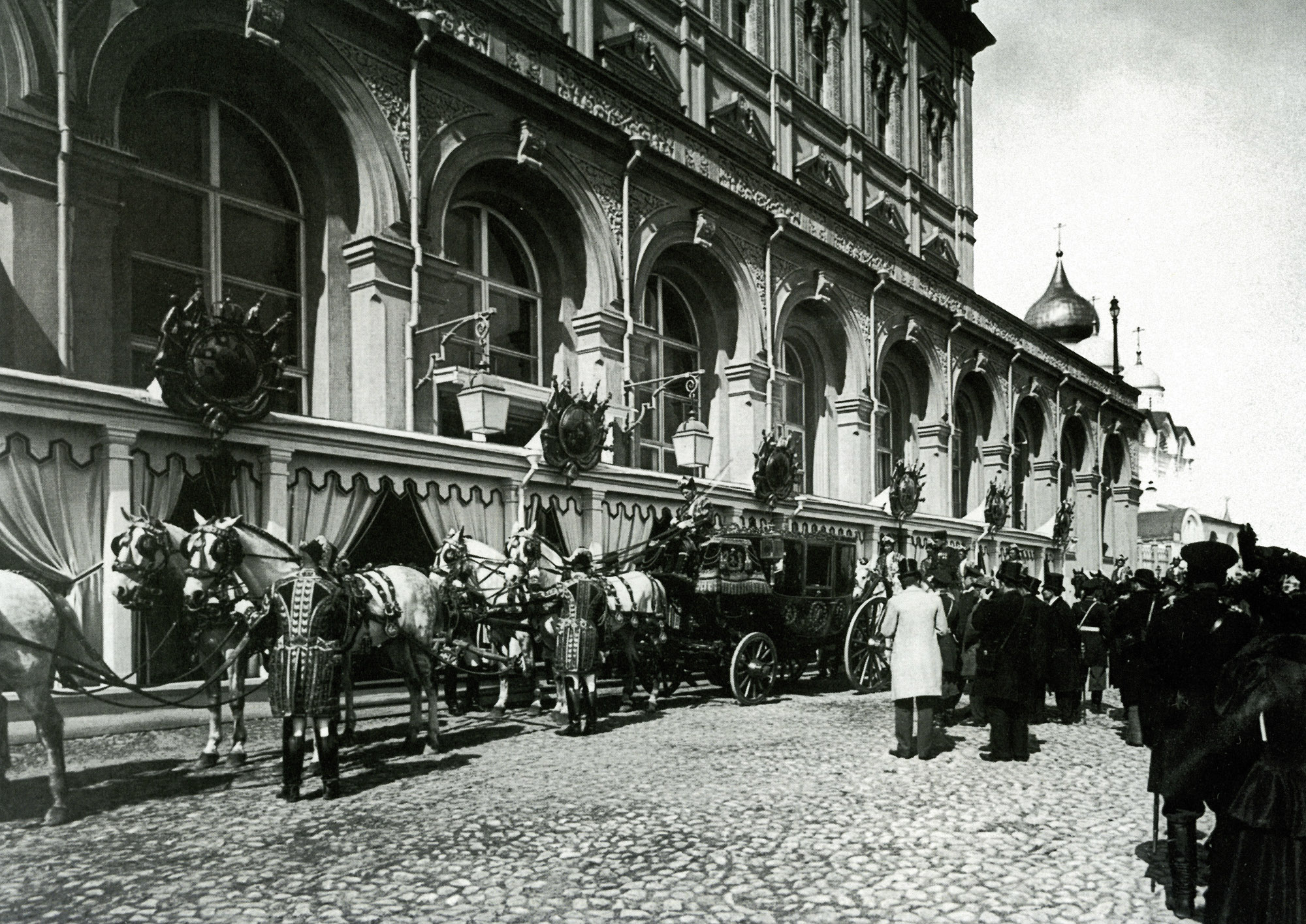 The royal coach of Nicholas II by the Grand Kremlin Palace, Moscow. 1896, coronation of Nicholas II.